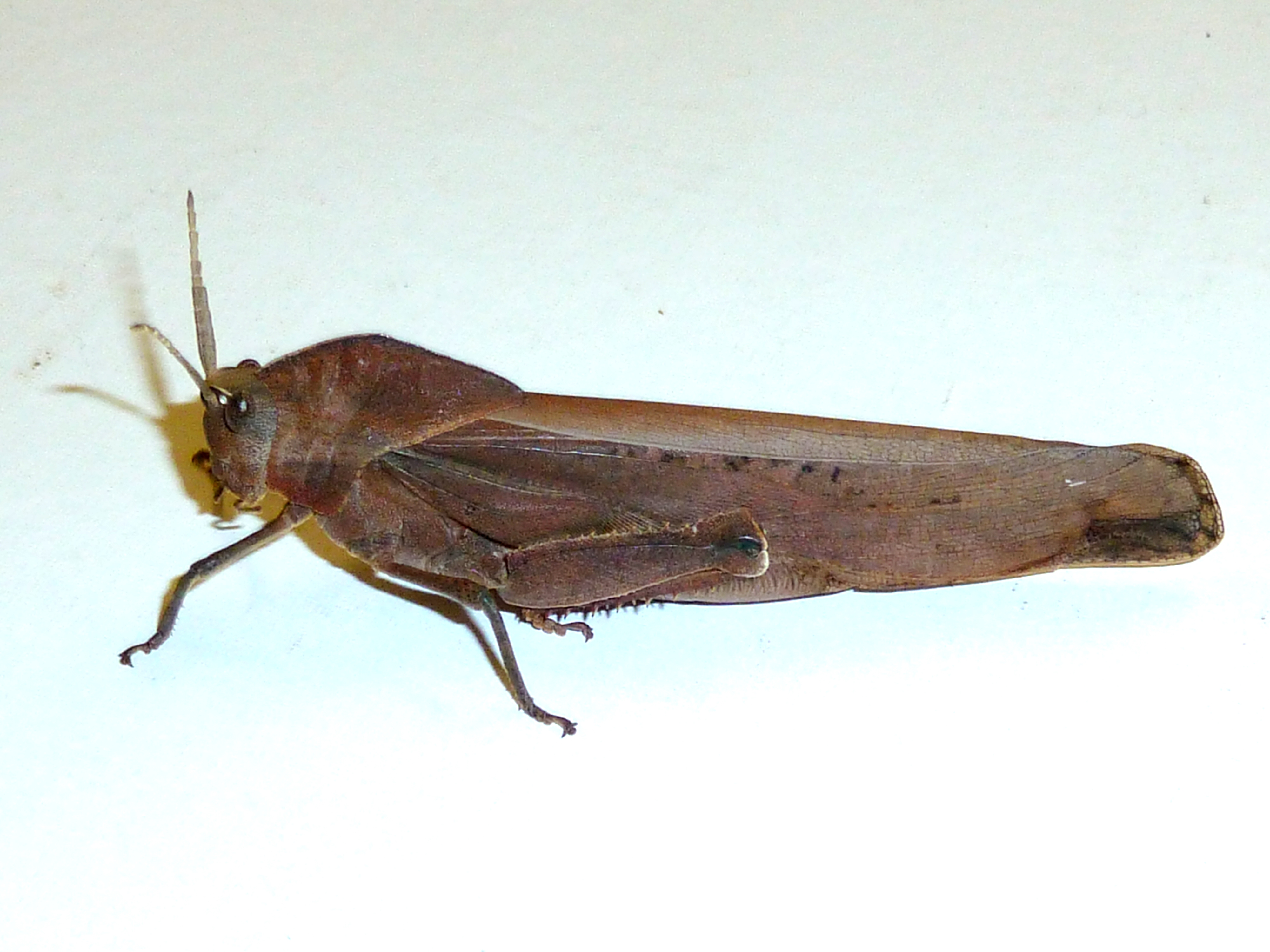 Pamphagidae locust, possibly Lamarckiana sp., cf. [1], attracted to artificial light in Terminalia sericea woodland, Seringveld, Pretoria